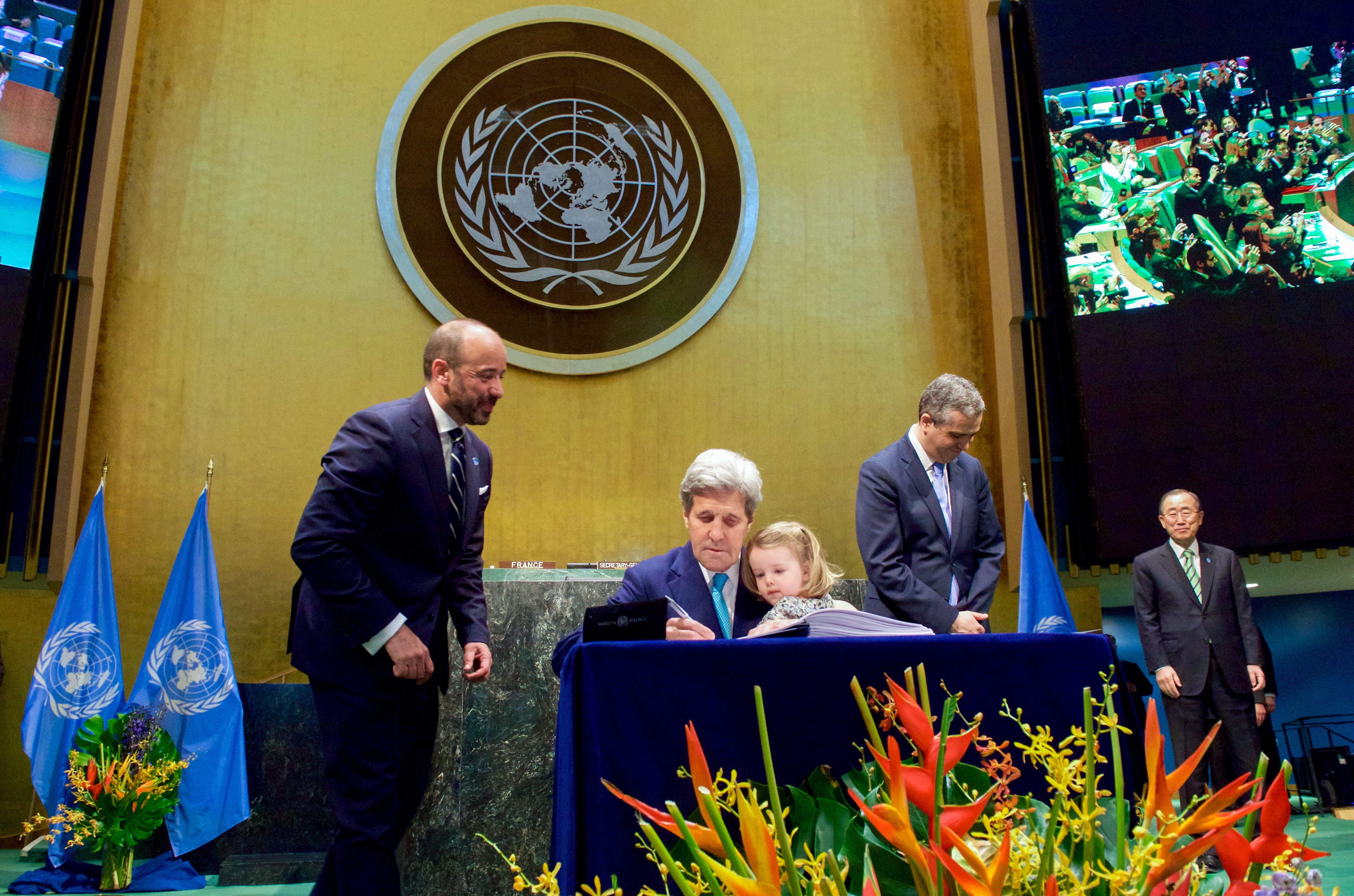 U.S. Secretary of State John Kerry, with his two-year-old granddaughter Isabelle Dobbs-Higginson on his lap and United Nations Secretary-General Ban ki-Moon looking on, signs the COP21 Climate Change Agreement on behalf of the United States during a ceremony on Earth Day, April 22, 2016, at the U.N. General Assembly Hall in New York, N.Y. [State Department photo/ Public Domain]